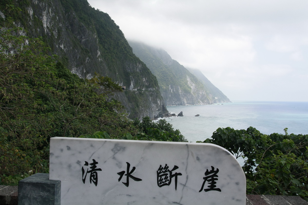 Chingshui Cliff is a famous tourist attraction in Taiwan.中文（中国大陆）: 清水断崖是台湾知名景点之一。